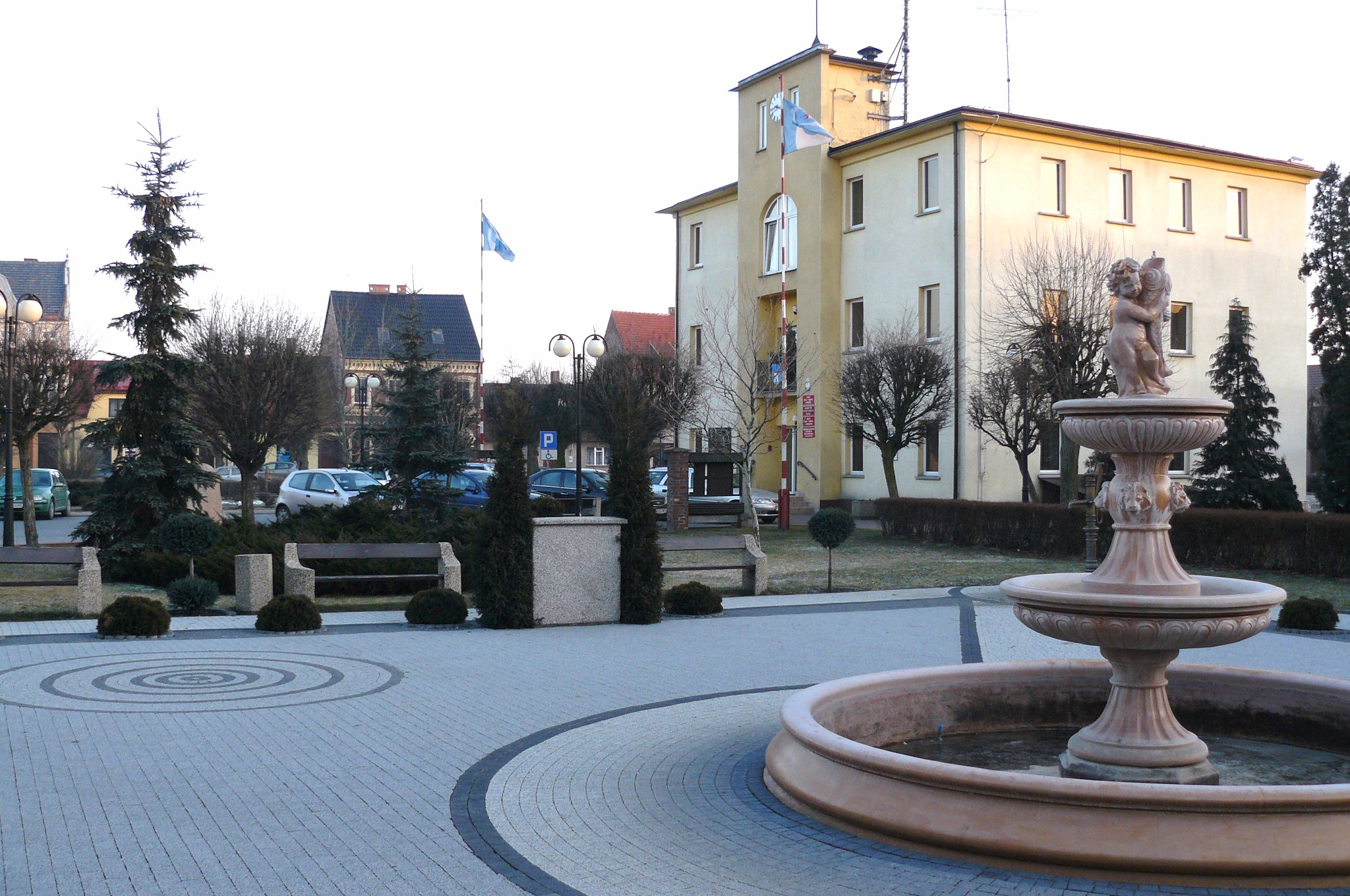 Raszków, city hall, market square.